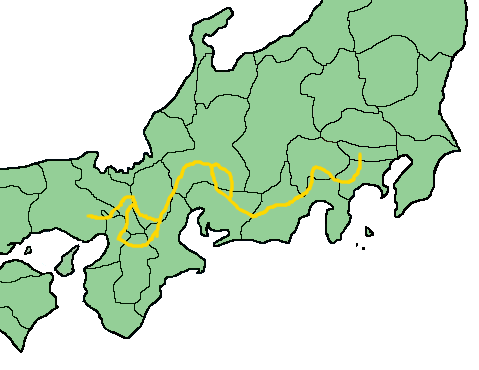 Map of the Tōkai Nature Trail (東海自然歩道) across central Japan.